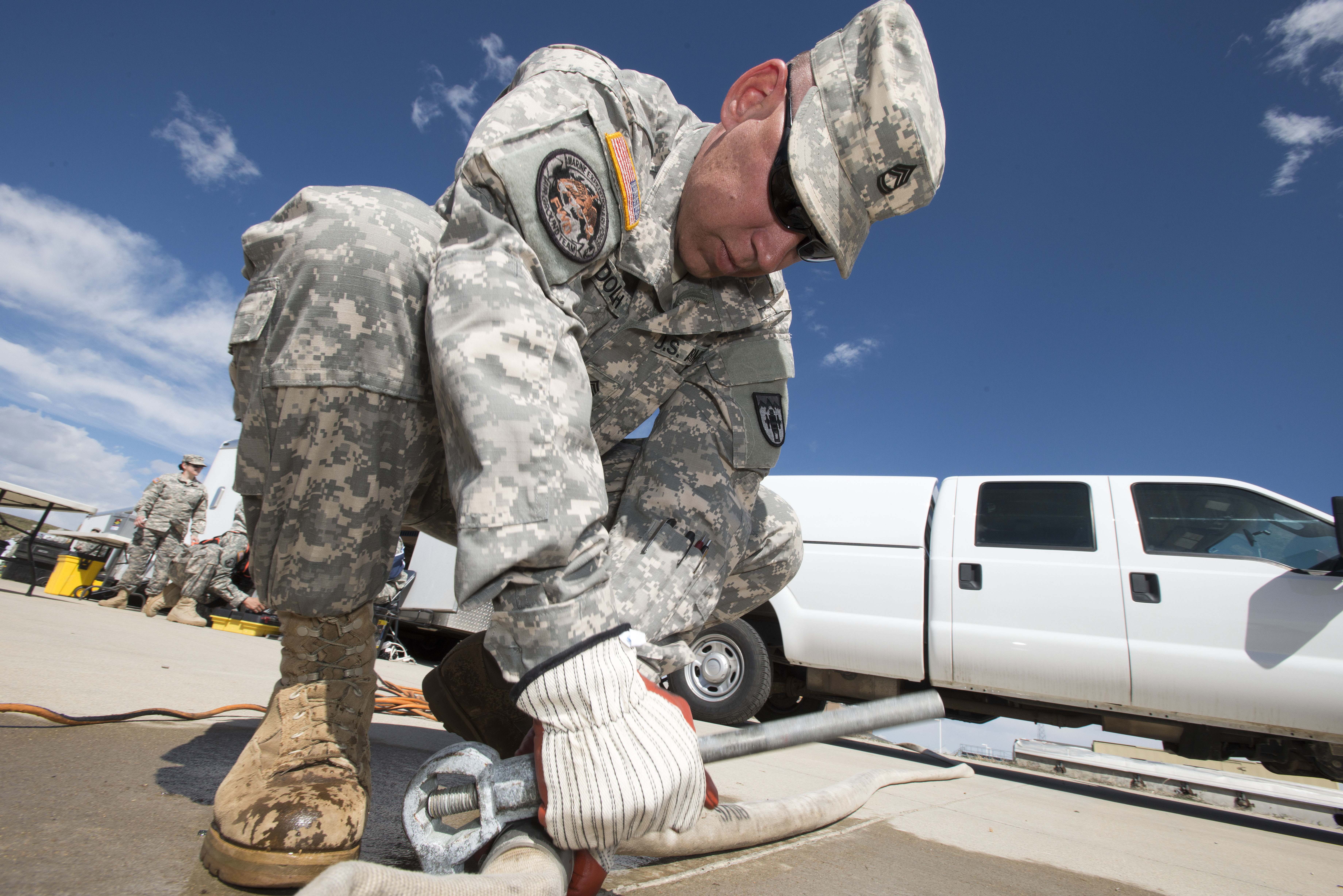 U.S. Army Sgt. Shawn Ludolph, Headquarters Support Company Detachment 2, 147th Brigade Support Battalion, Colorado National Guard, connects fire hoses together during a training exercise at the North Metro Fire Training Center in Erie, Colo., April 12, 2015. Citizen soldiers and citizen airmen with the Colorado National Guard’s Chemical, Biological, Nuclear, Radiological, and Explosive Enhanced Response Force Package (CERFP) teams regularly come together though out the year to do vital training exercises so they are always prepared and always ready when the nation calls for their services. (U.S. Air National Guard photo by: Tech. Sgt. Wolfram M. Stumpf/RELEASED)